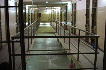 4:16 p.m., Oct. 17, 2003. Possibly Wing 1A/B second tier. All caption information is taken directly from CID materials. U.S. Army / Criminal Investigation Command (CID). Seized by the U.S. Government.